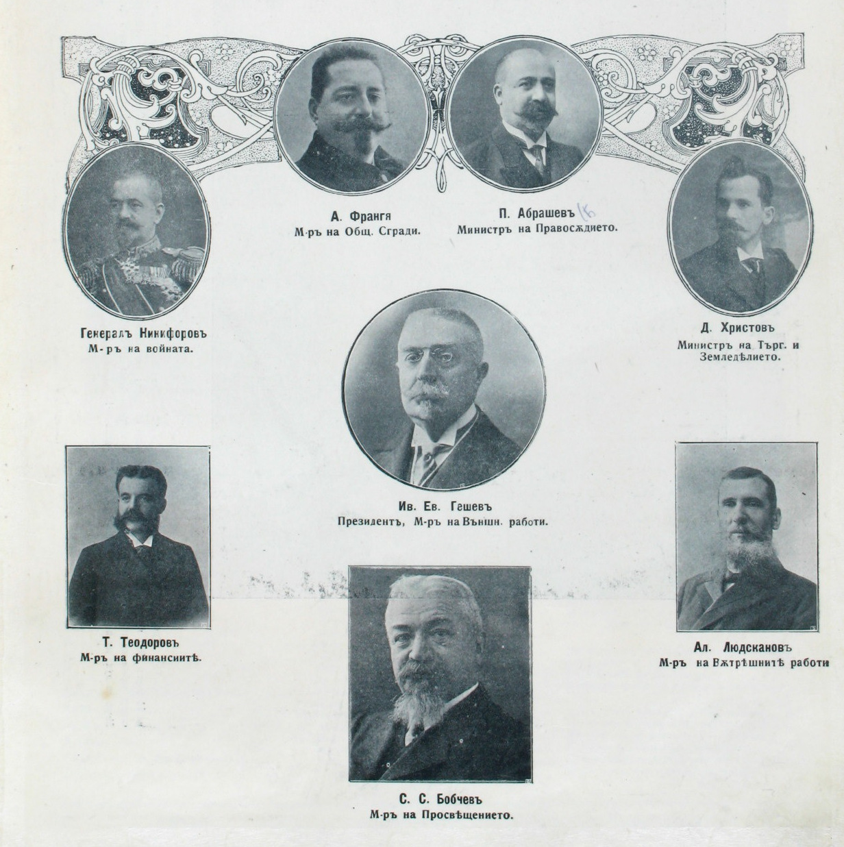 Ivan Evstratiev Geshov government, 1911-1913